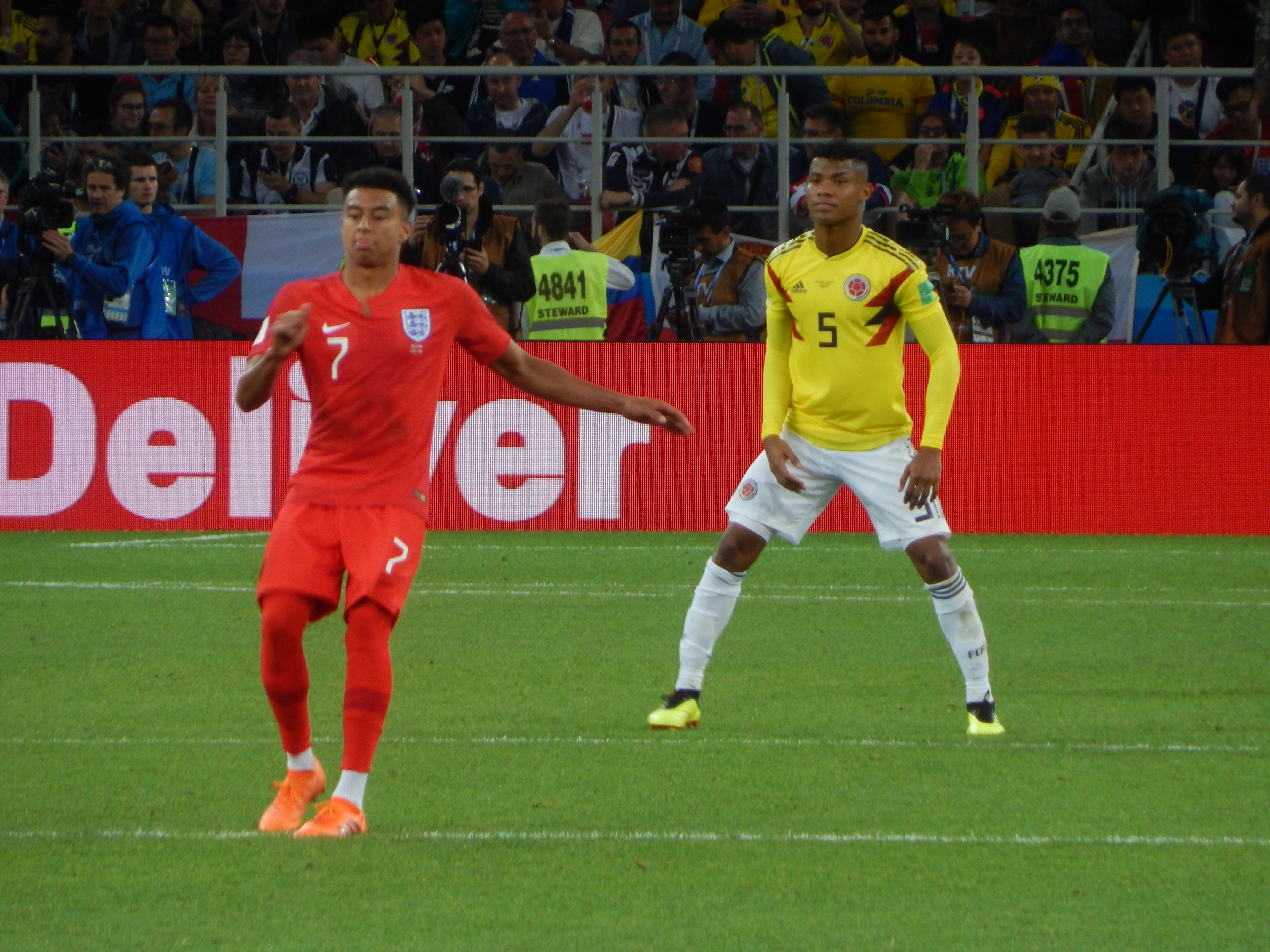 FIFA World Cup 2018, Round of 16, Colombia vs. England